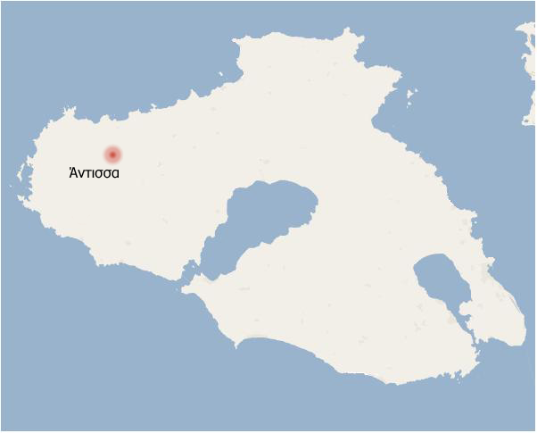 Andissa on the map.